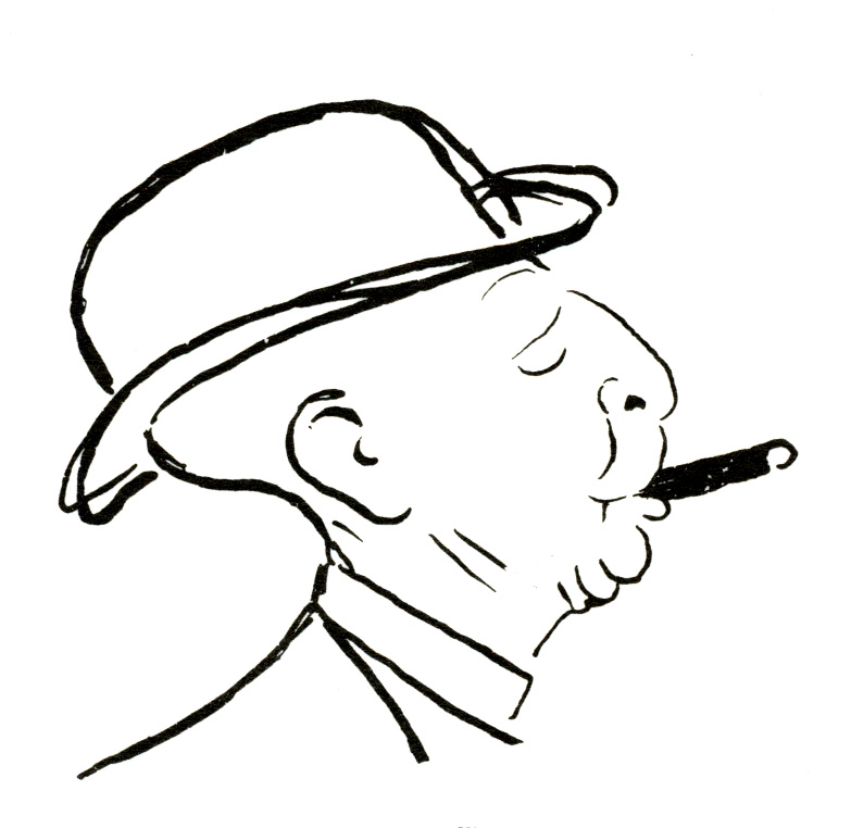 Caricature of Gordon Bennett reproduced in SEM (1979)